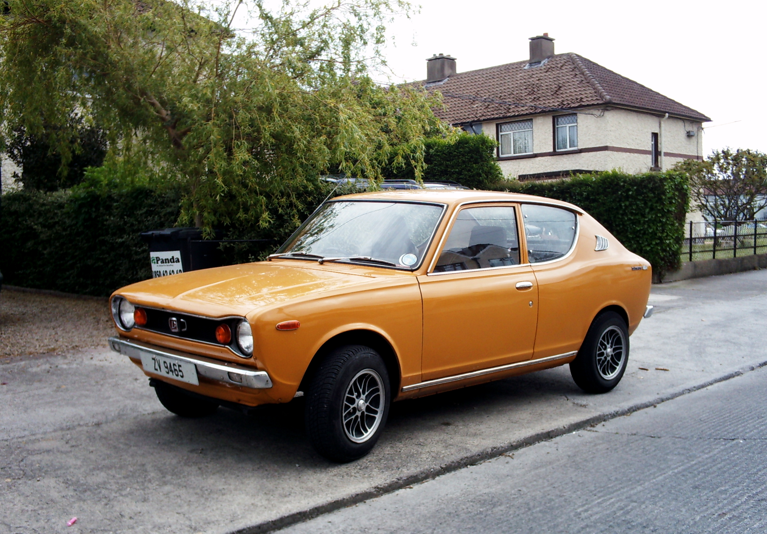 Datsun 100A Cherry.